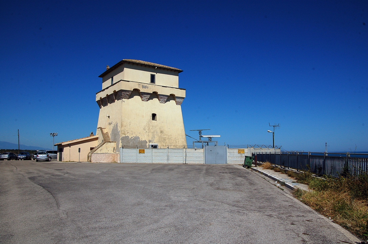 Vasto